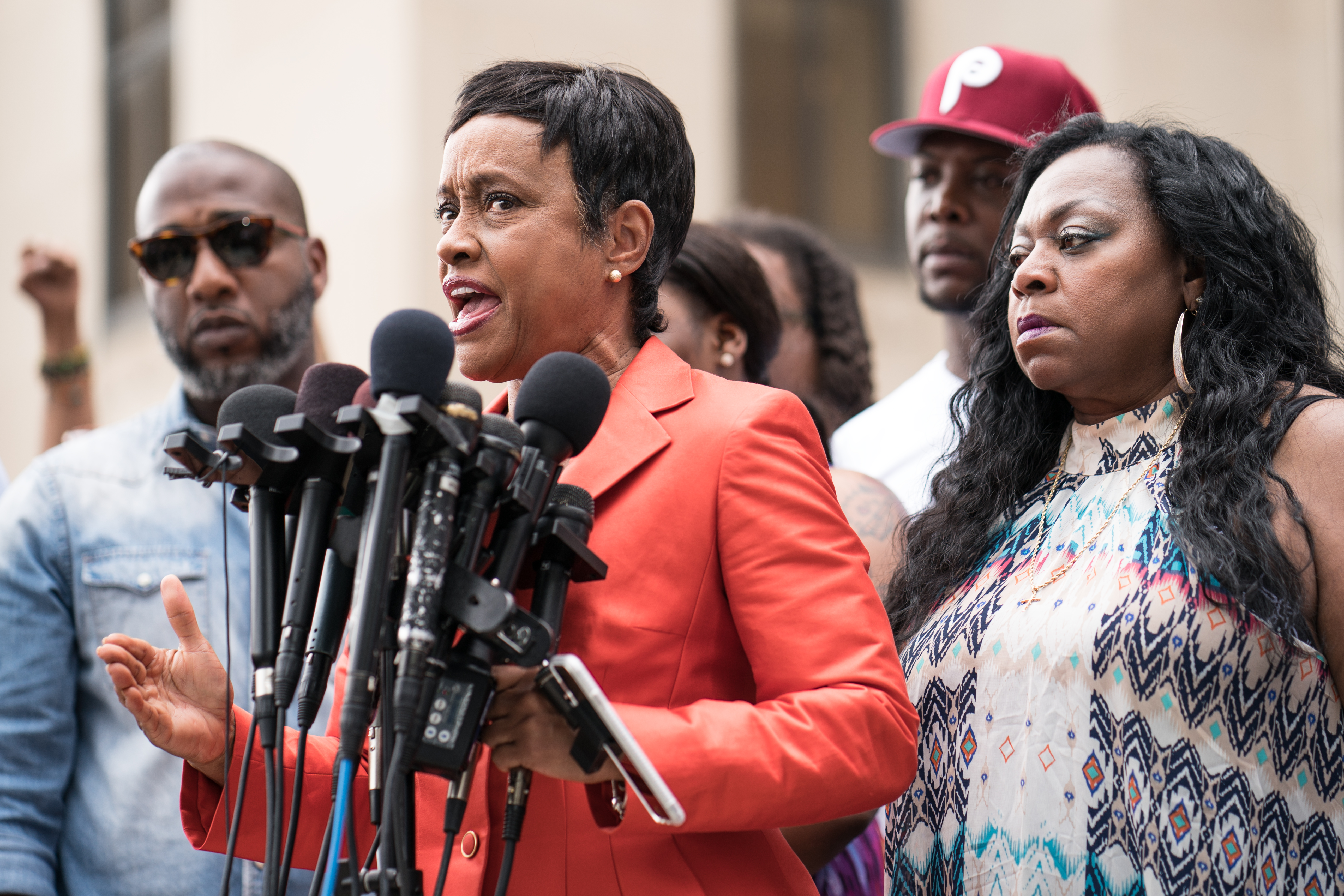 Glenda Hatchet speaking at a press conference outside the courthouse after the not guilty verdict in the trial of officer Jeronimo Yanez for the shooting death of Philando Castile on July 6, 2016.